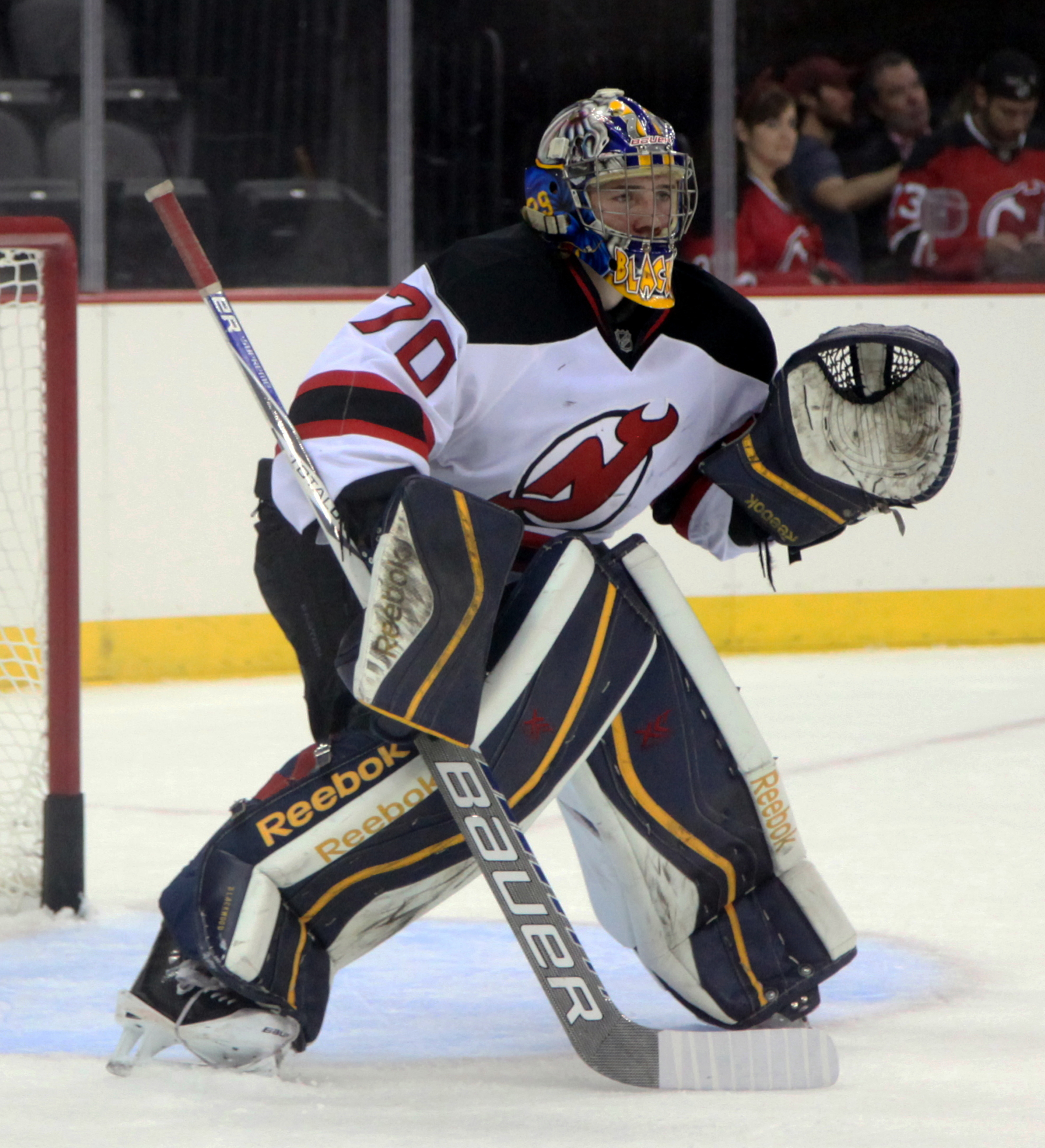 Blackwood in September 2015.